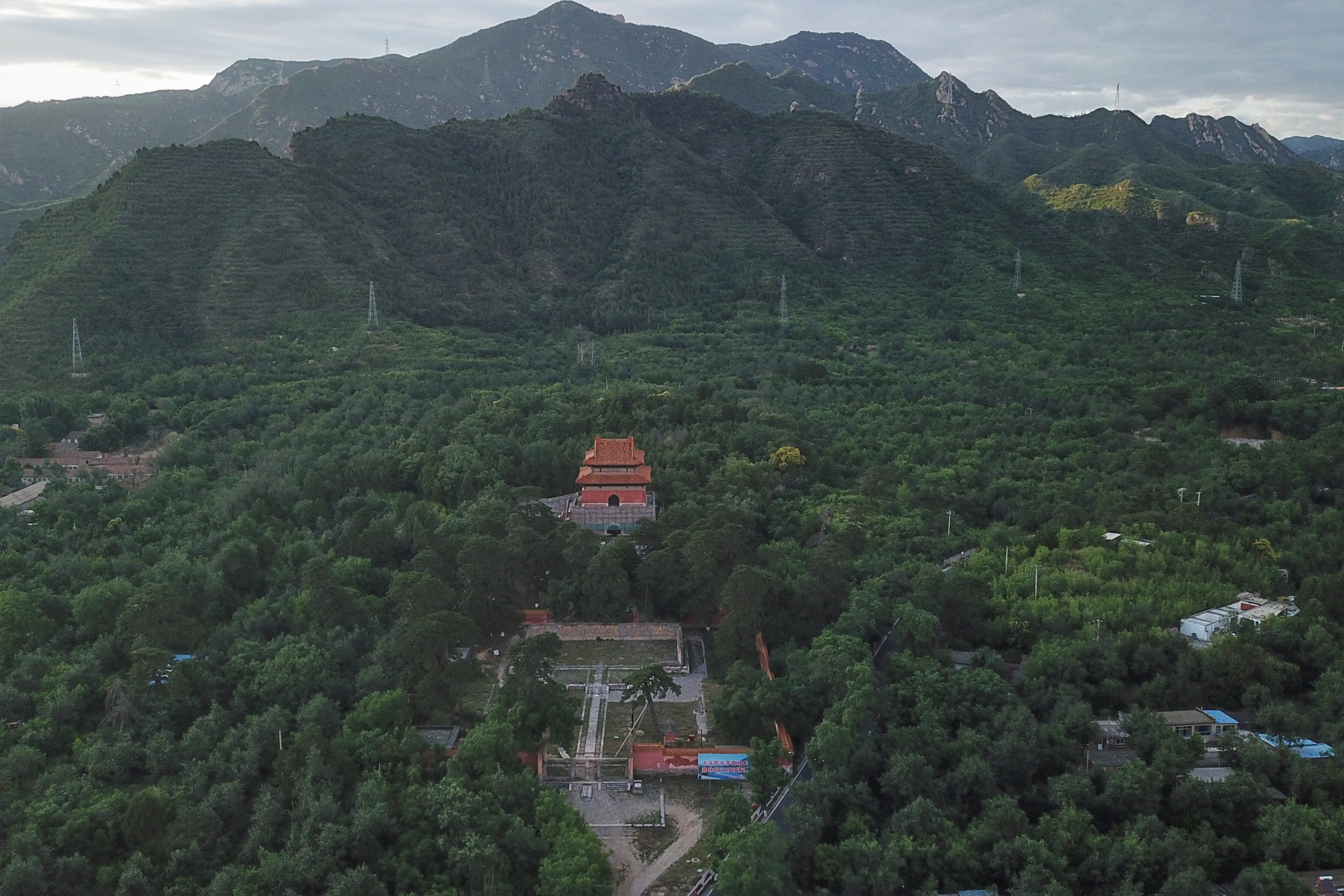 The Tailing mausoleum where the Hongzhi emperor was buried.